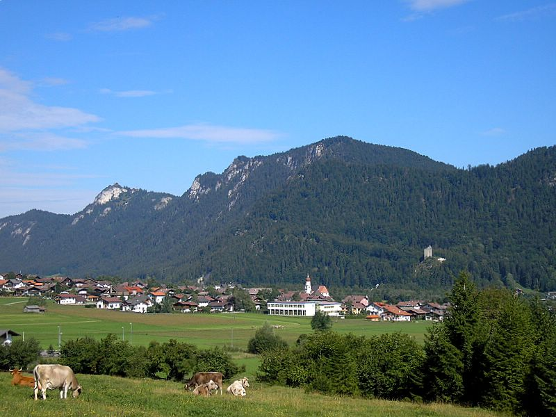 The Town and the border between Tirol and Bavaria with the castle ruins Vilsegg (right) and Falkenstein (Bavaria, left)